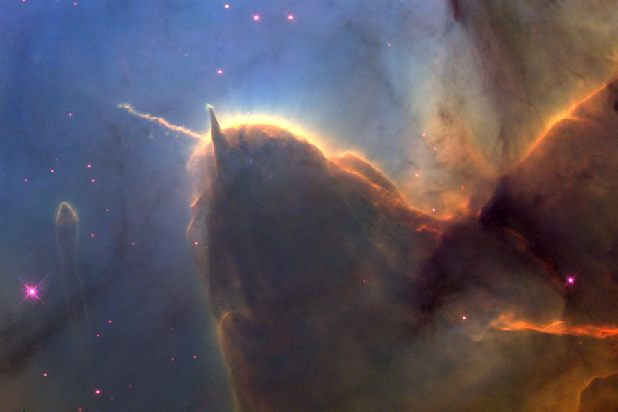 Trifid Nebula Found, [1], a close detail of [2]. The same image seems here, [3]; only this is in more detail.